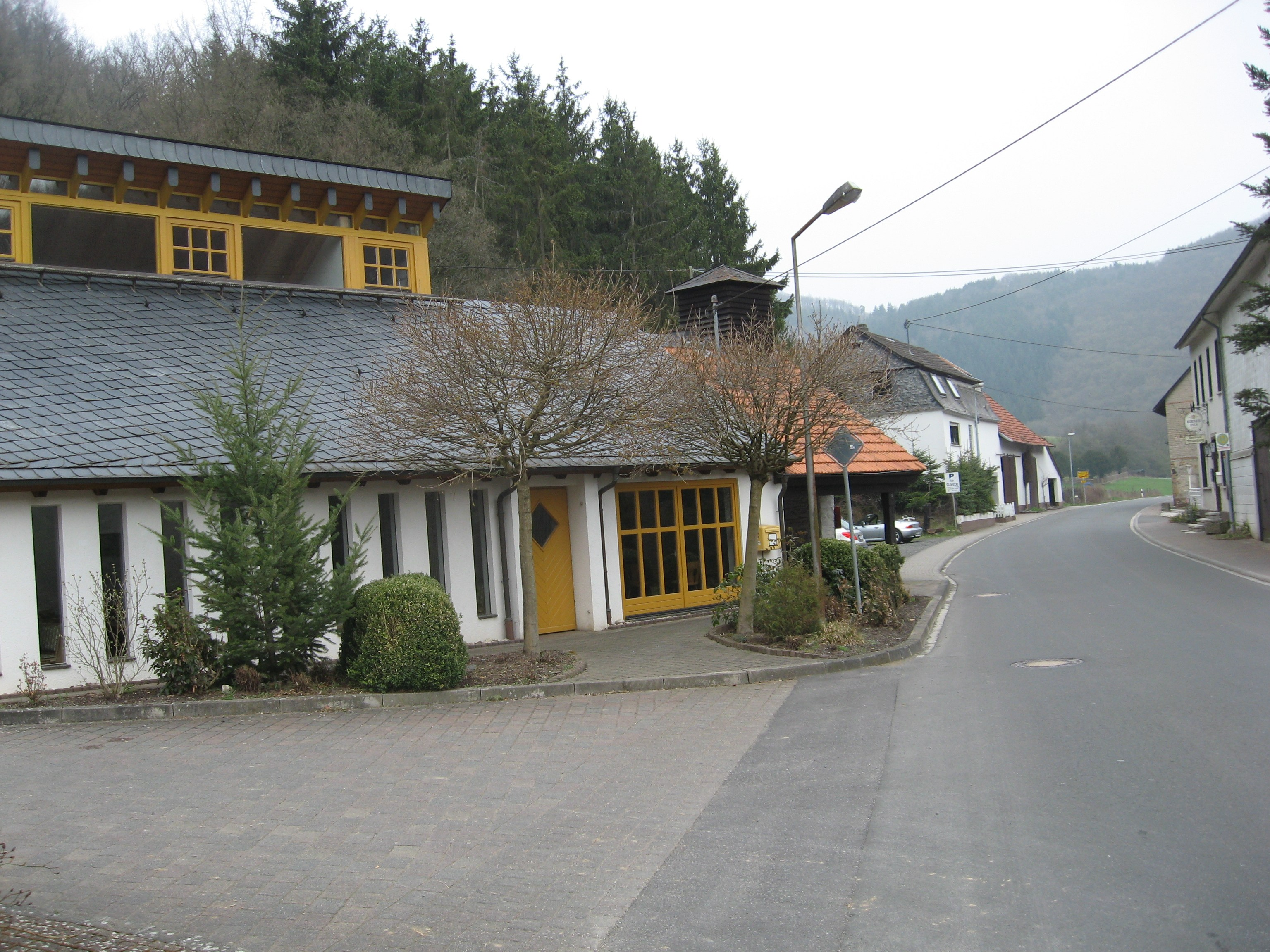 Village Heinzenberg in the Hunsrück landscape, Germany